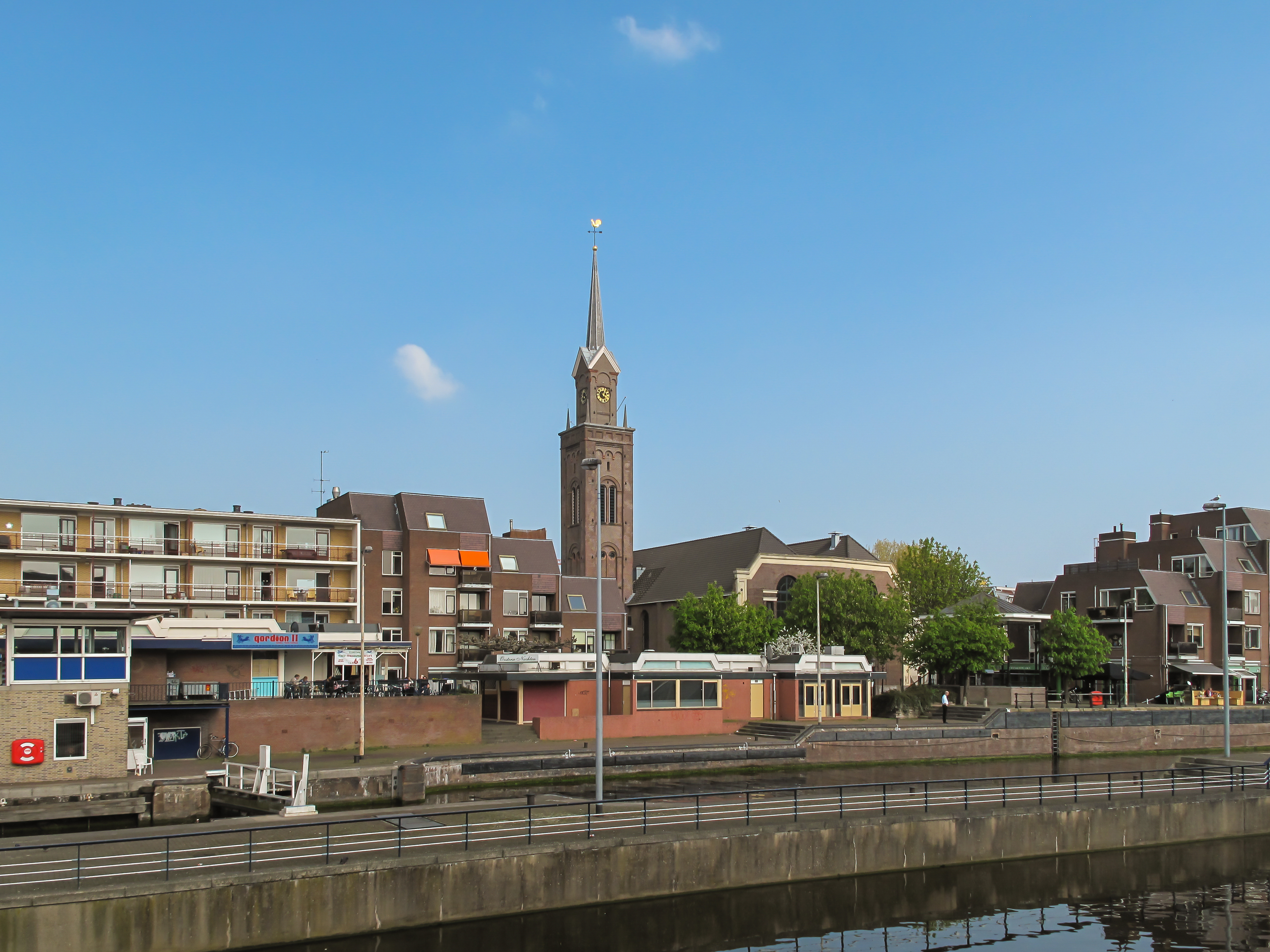 Zaandam, church in the street